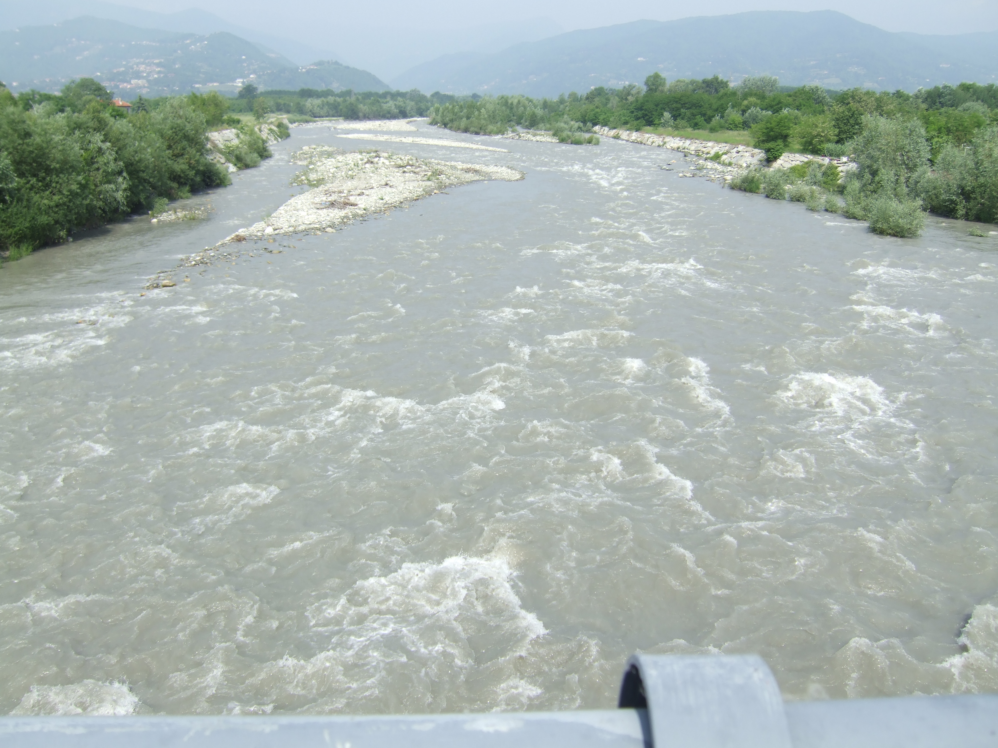 River Chisone just outside Pinerolo